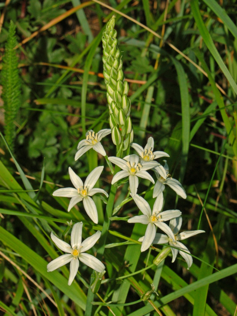 Ornithogalum narbonense - S. Agata Fossili, Alessandria, Italy